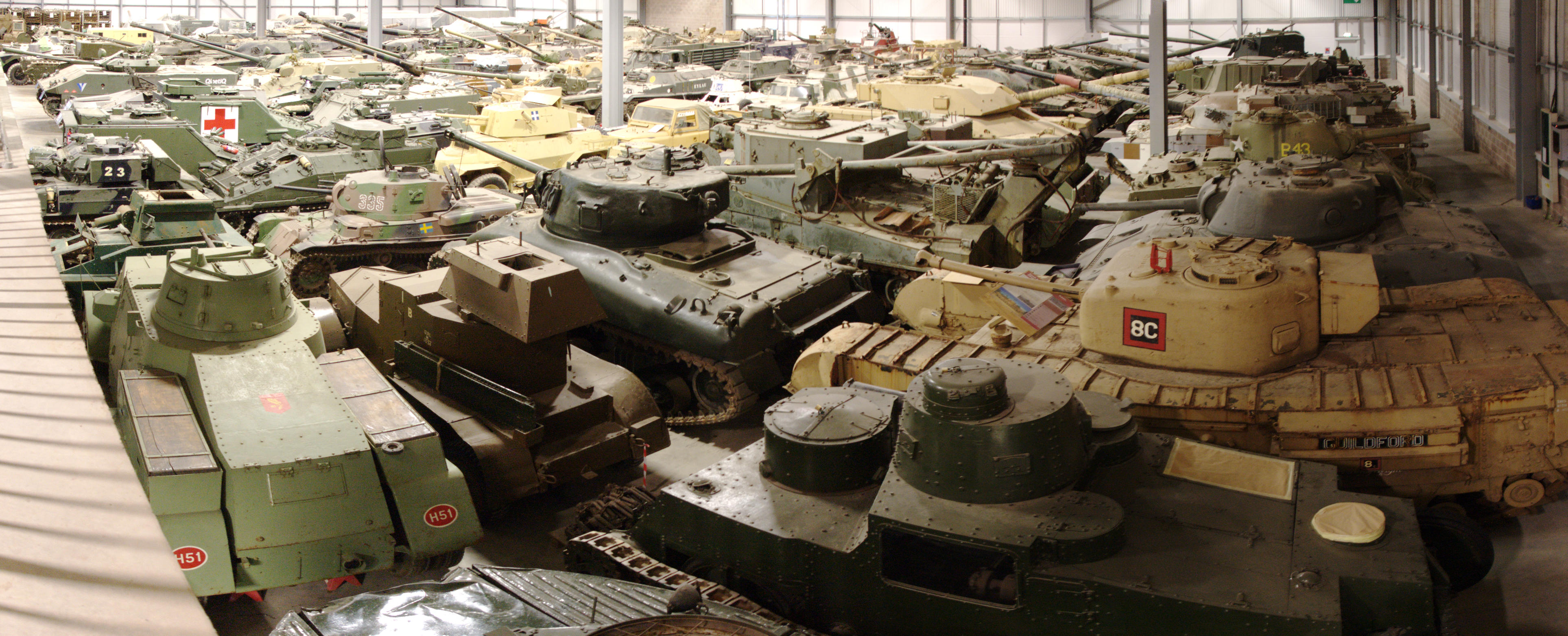 Bovington Tank Museum, Vehicle Conservation Centre.